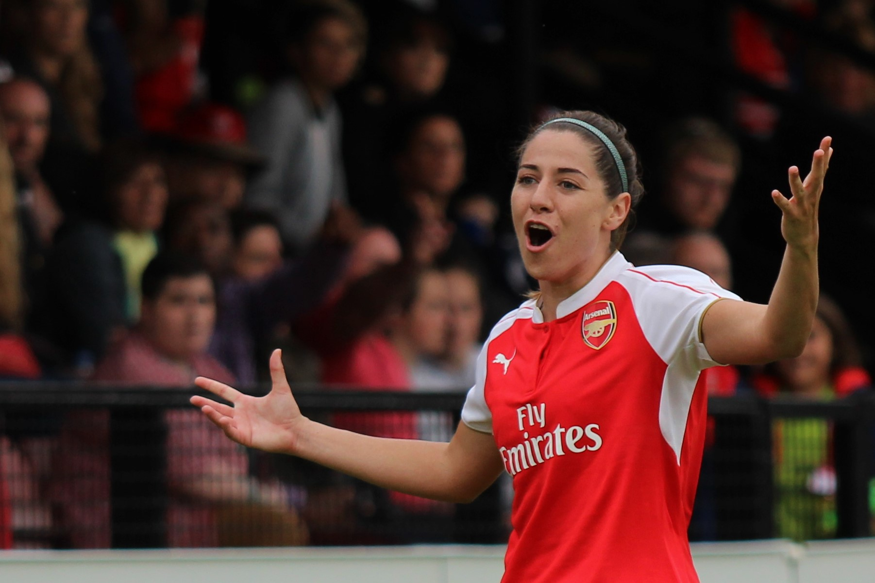 Vicky Losada of Arsenal Ladies complains as a decision goes against her during the game against Liverpool.